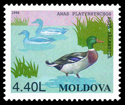 Stamp of Moldova